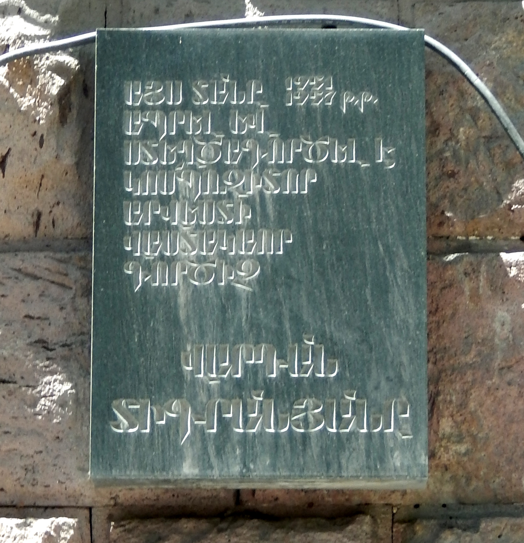 Tigran Vardanyan's plaque